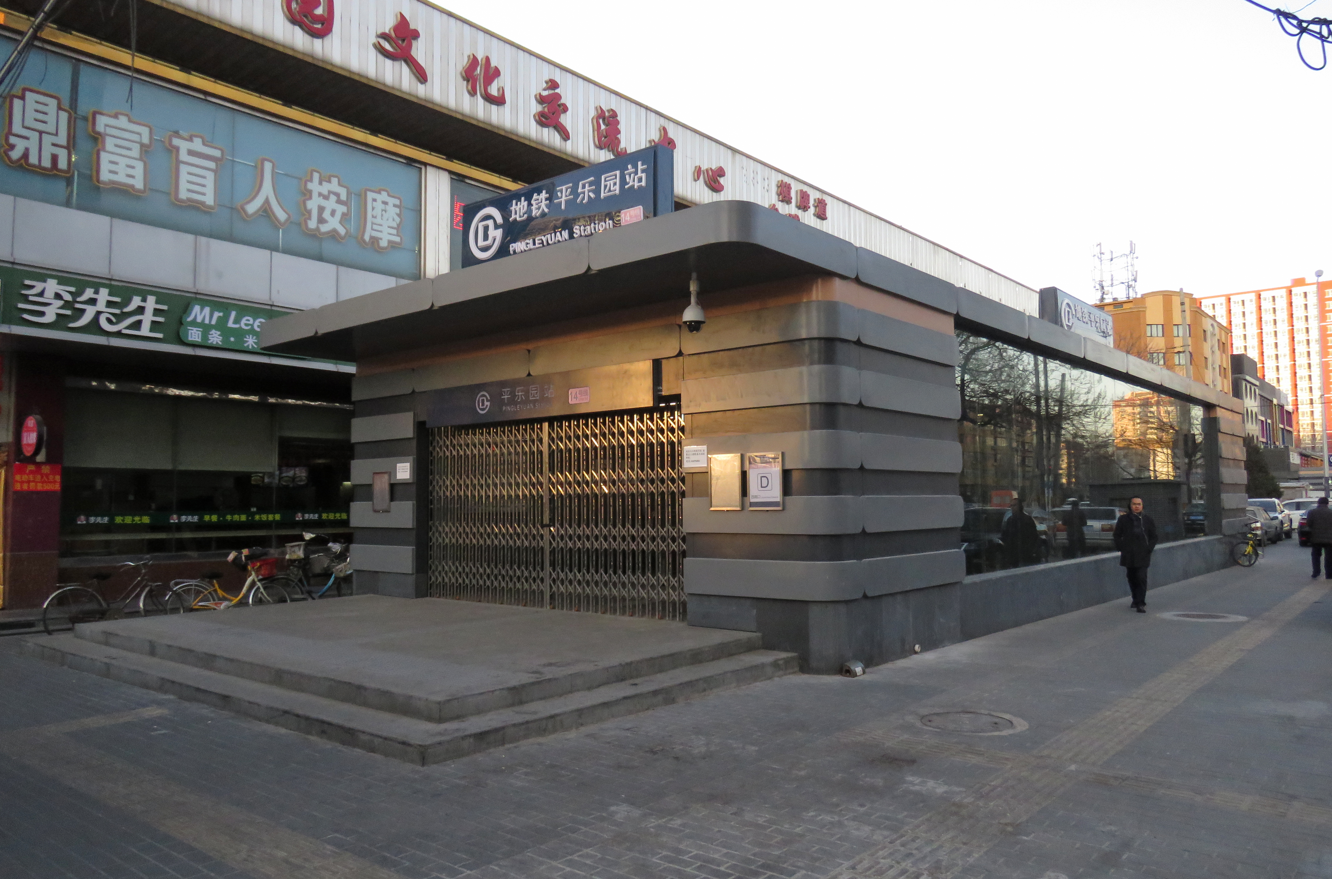 In proximity to Route 52 terminus.